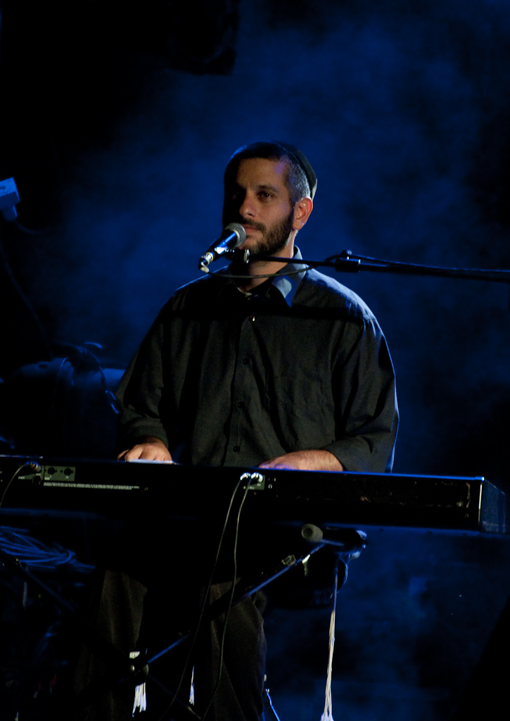 Eviatar Banai at a concert at the Elephant Bar on July 2, 2009.